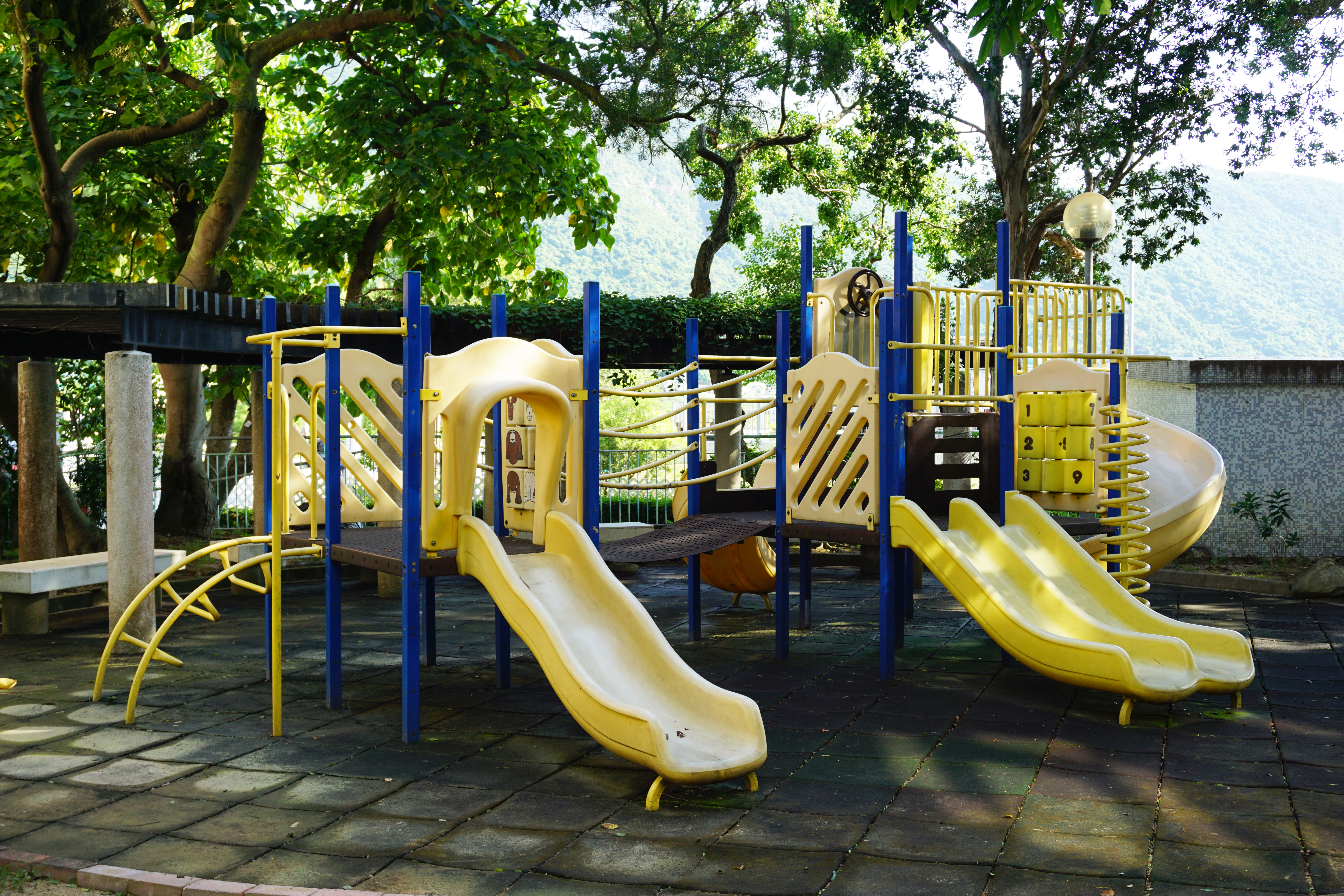 Lung Hin Court in Tai O, Hong Kong.